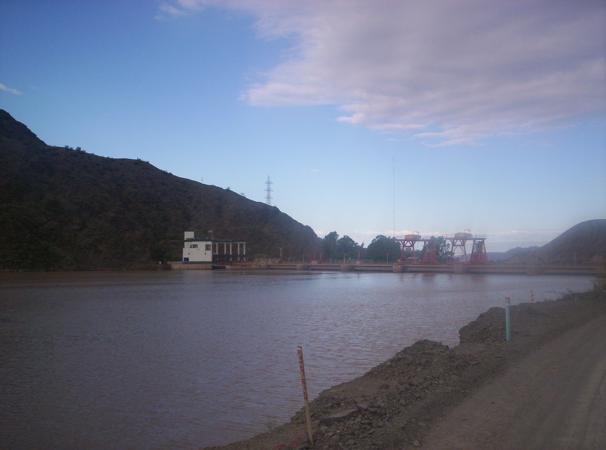 Photo shows a view of the construction of a dam reservoir would receive the name "Punta Negra" on the San Juan River at the boundary between the Department and Zonda Ullum in the Province of San Juan Argentina